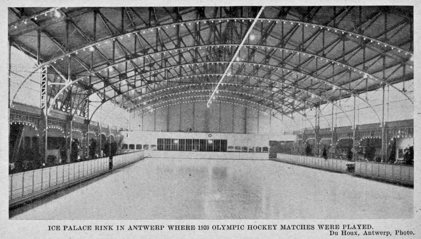 Palais de Glace d'Anvers ice skating rink in Antwerp, Belgium, venue for ice hockey and figure skating at the 1920 Summer Olympics.